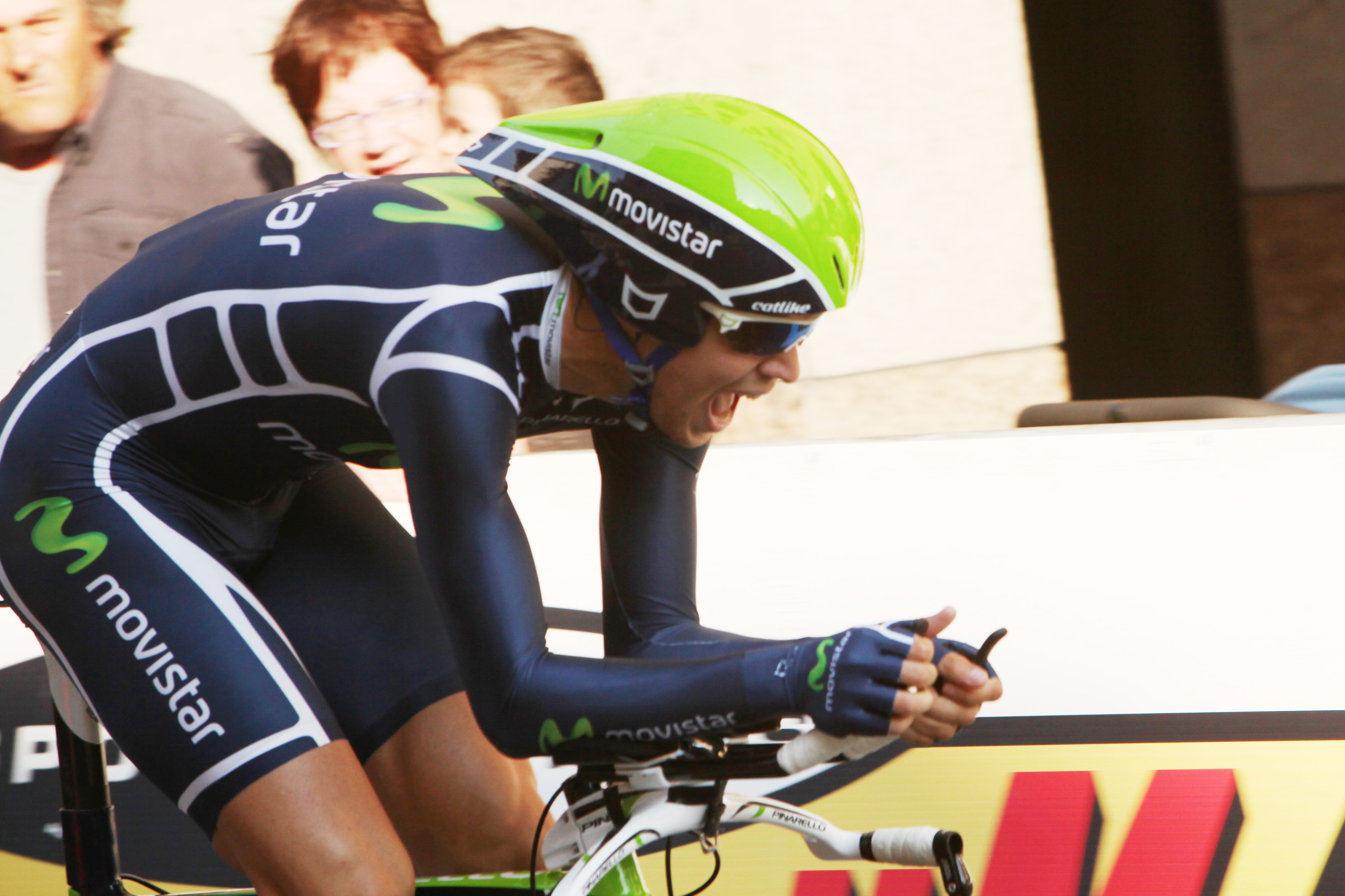 Jesus Herrada at the prologue of the Tour de Romandie 2011